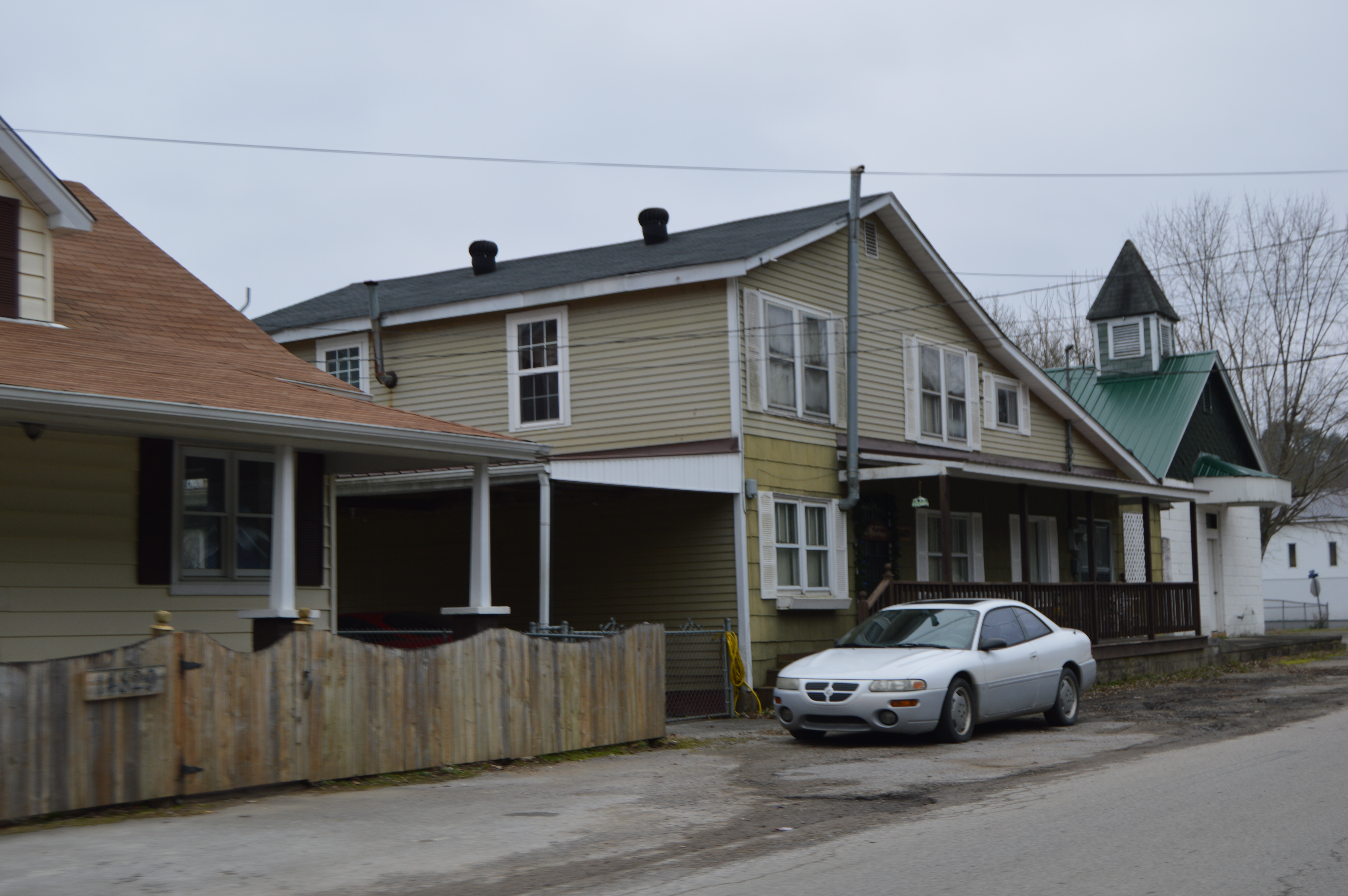 Buildings on the southern side of River Street (Kentucky Route 66) just west of Second Street in Oneida, Kentucky, United States.